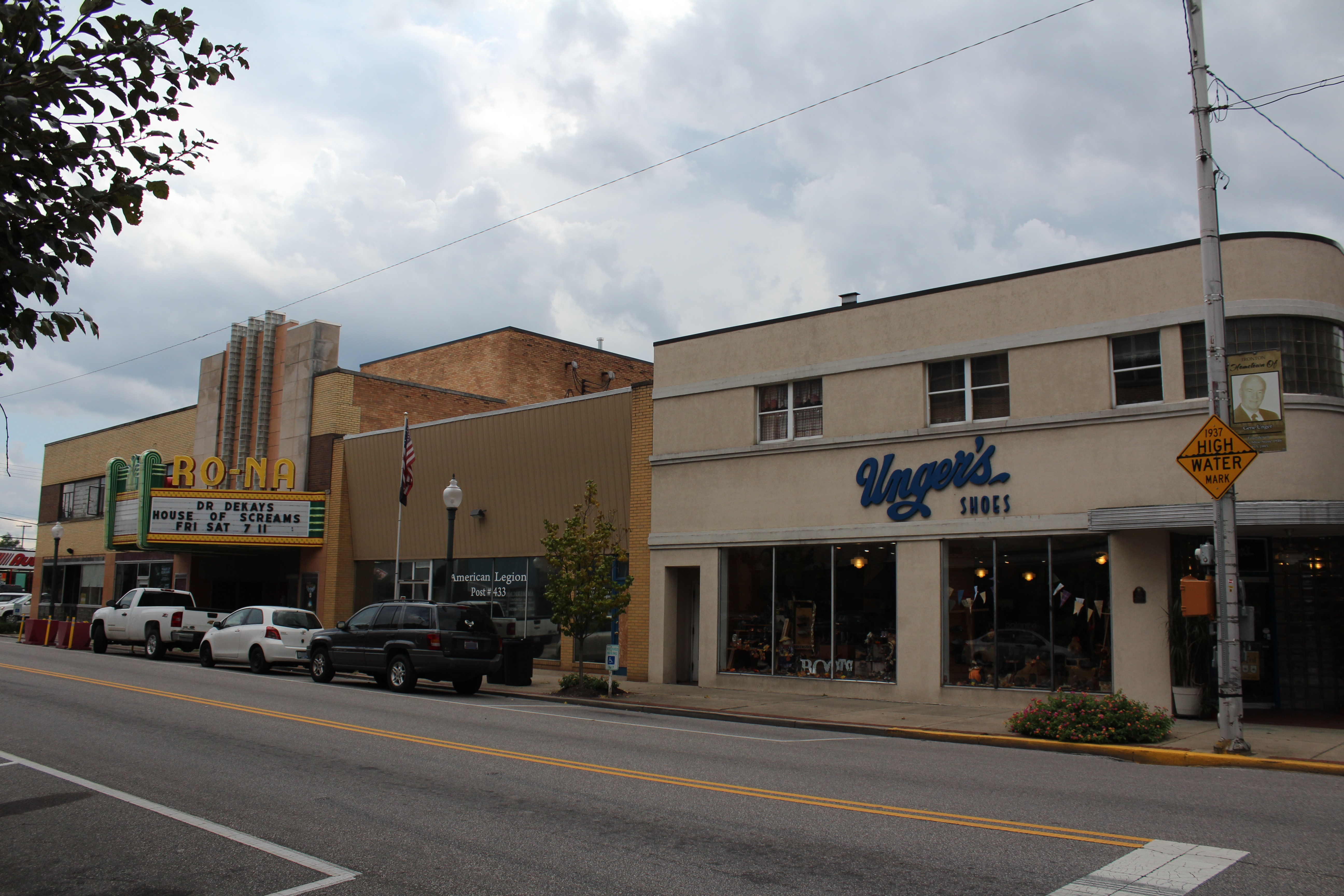 Unger's Shoes and Ro-Na Theater make a part of the Downtown Ironton Historic District.